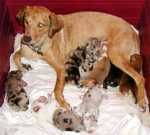 Litter of Catahoula Leopard Dogs Taken by of the litter of puppies from which her dog came; Molly is the mom. Sent to Elf